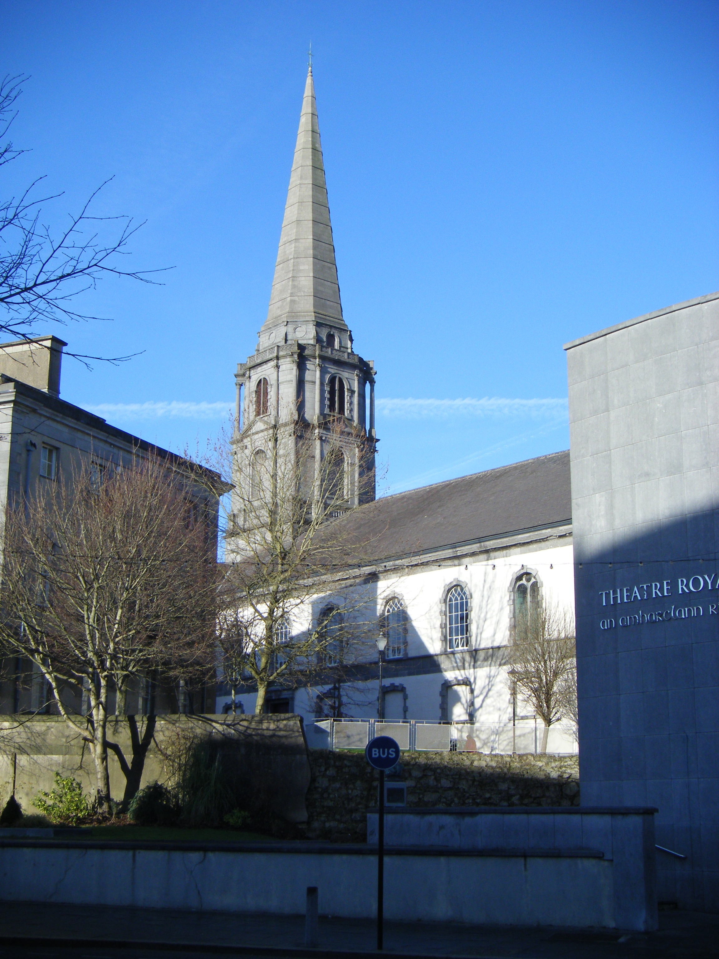 Christ Church Cathedral, Waterford, from The Mall, with the Bishop's Palace to the left and the Theatre Royal to the right.